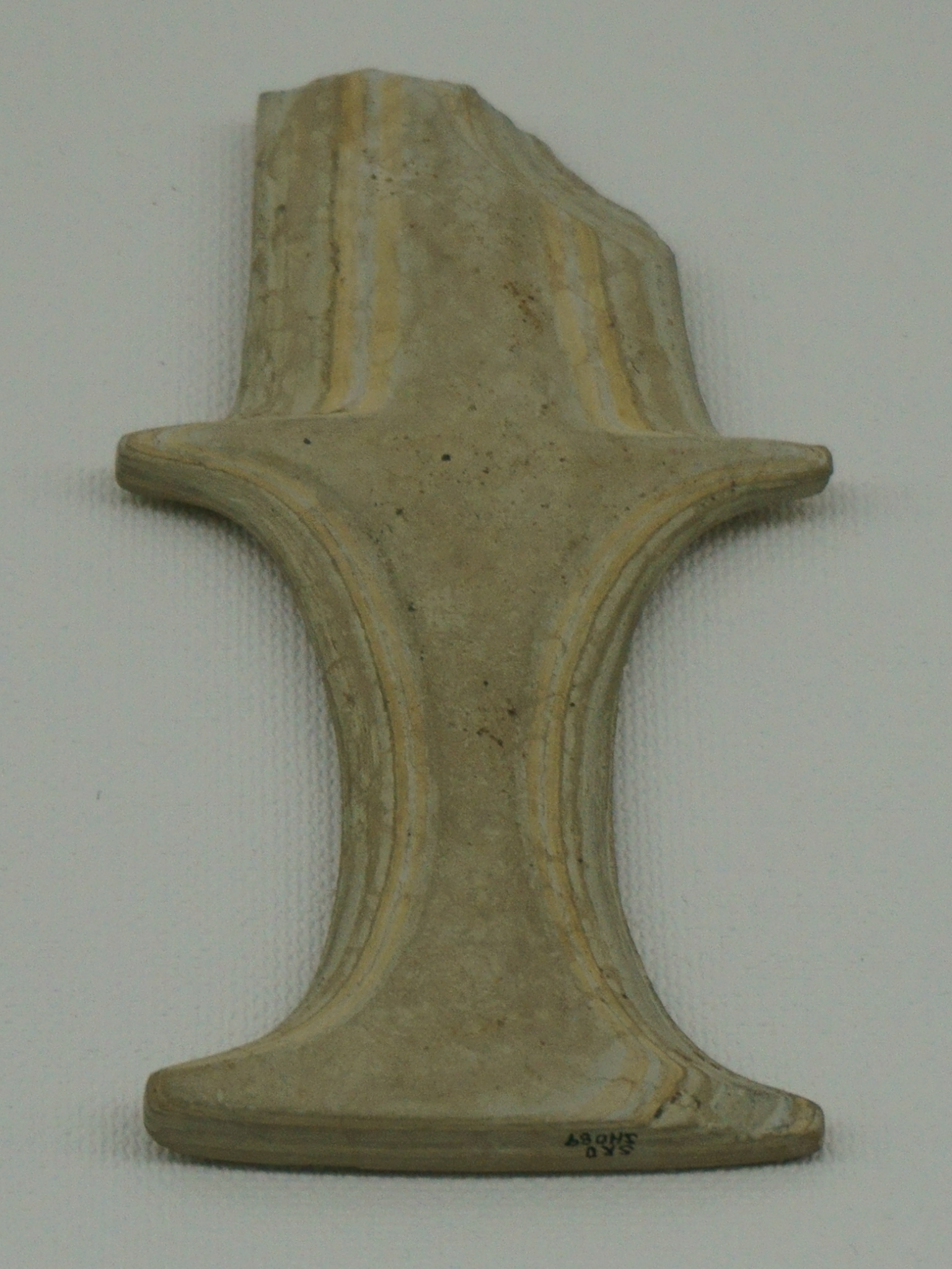 Polished stone dagger, existence handle type. Excavated from:Yoshinogari Site. Display:Exhibition room of Yoshinogari Site.